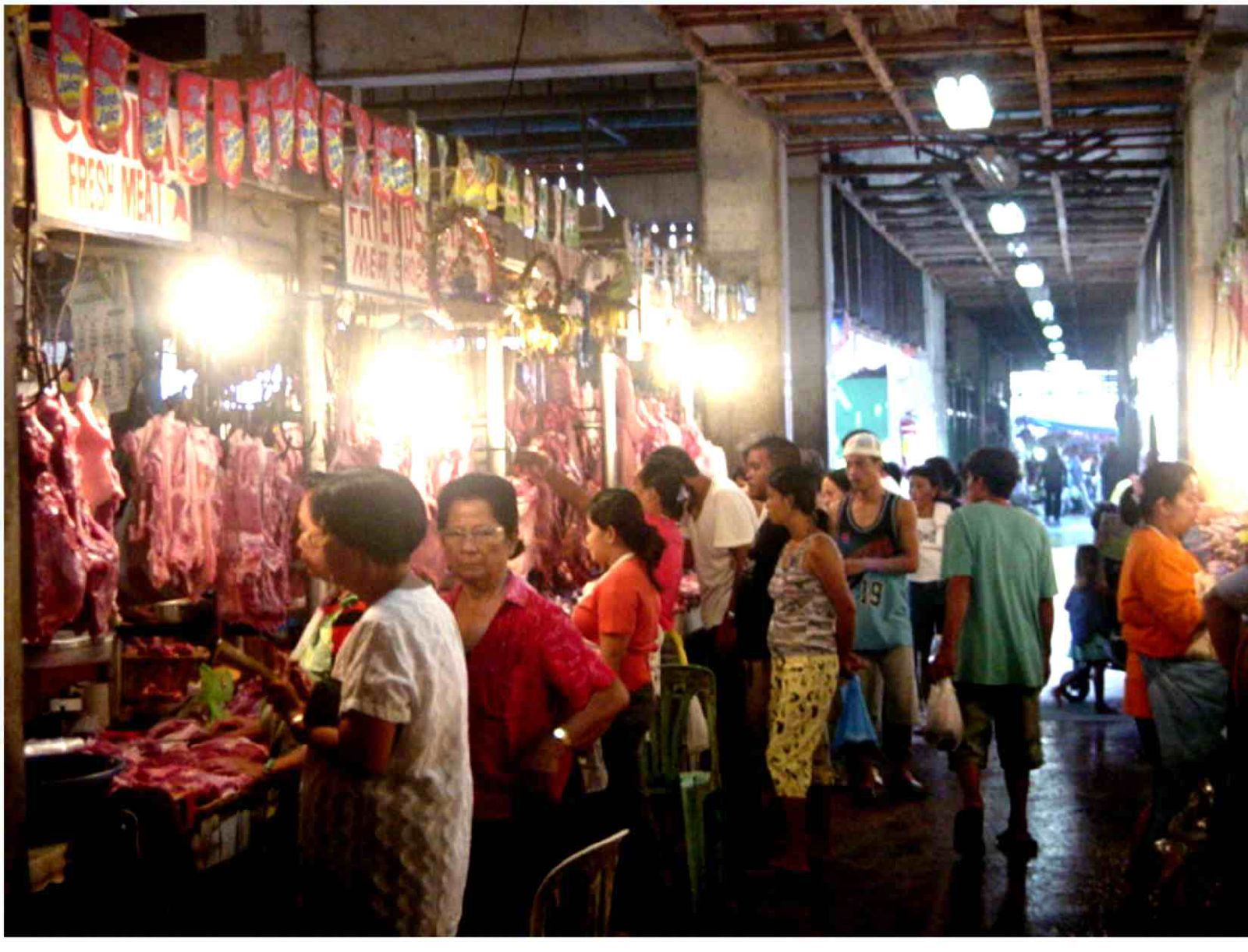 Meat section in a public market (palengke) in Danao City, Philippines.